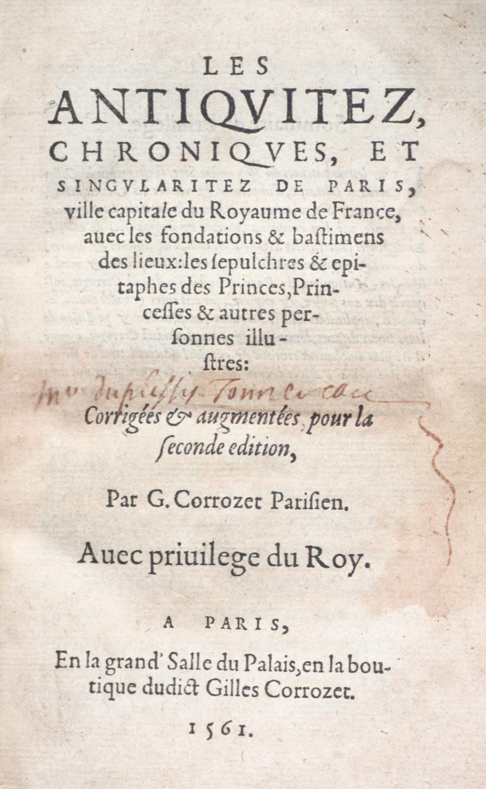 Gilles Corrozet: Antiquités, Chroniques de Paris